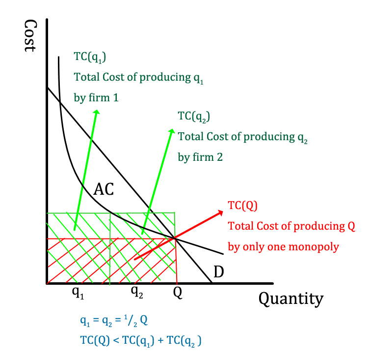 A graph to illustrate that it would be more cost effective to just have one large firm produce a product than to have two firms producing the same good. AC means average cost and D means demand.